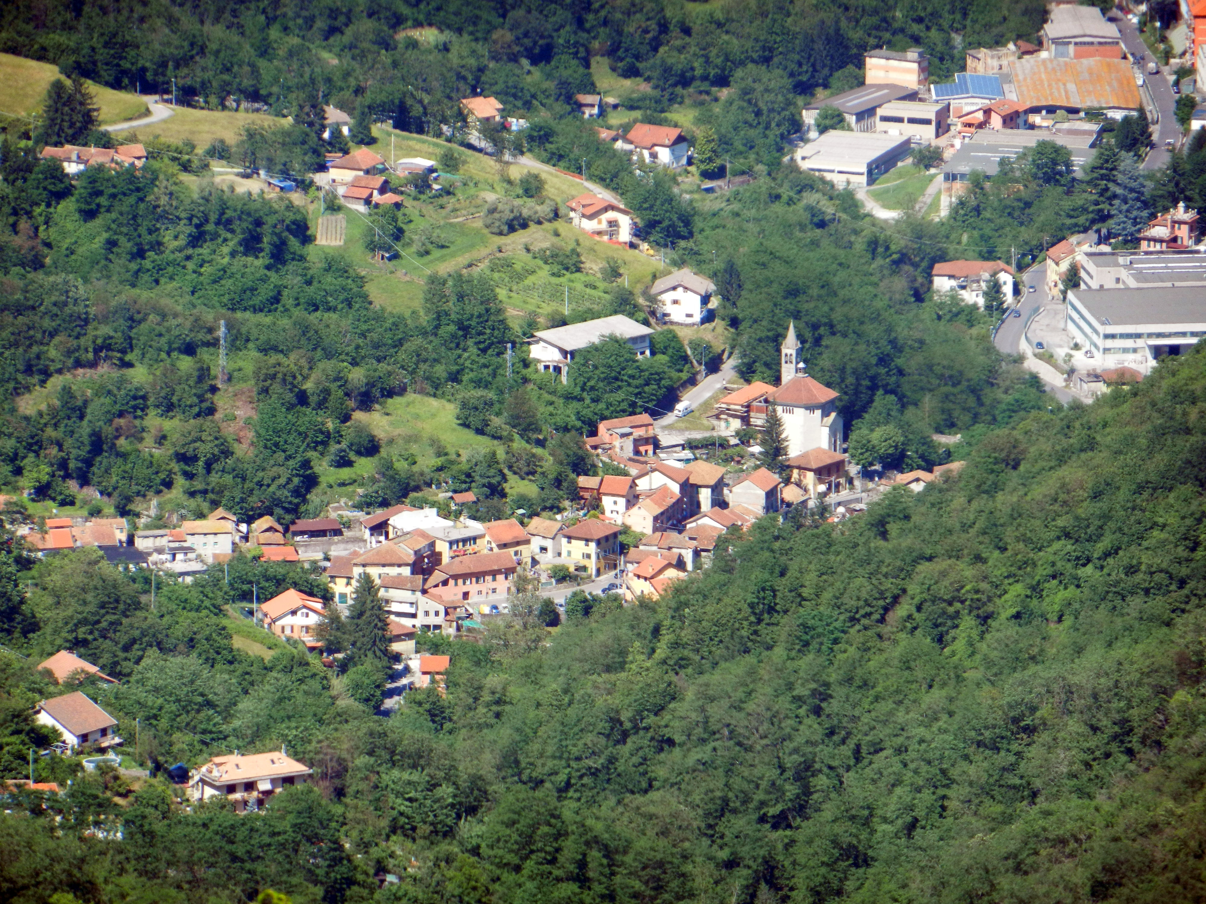 Campomorone (province of Genoa, Italy), the village of Gazzolo